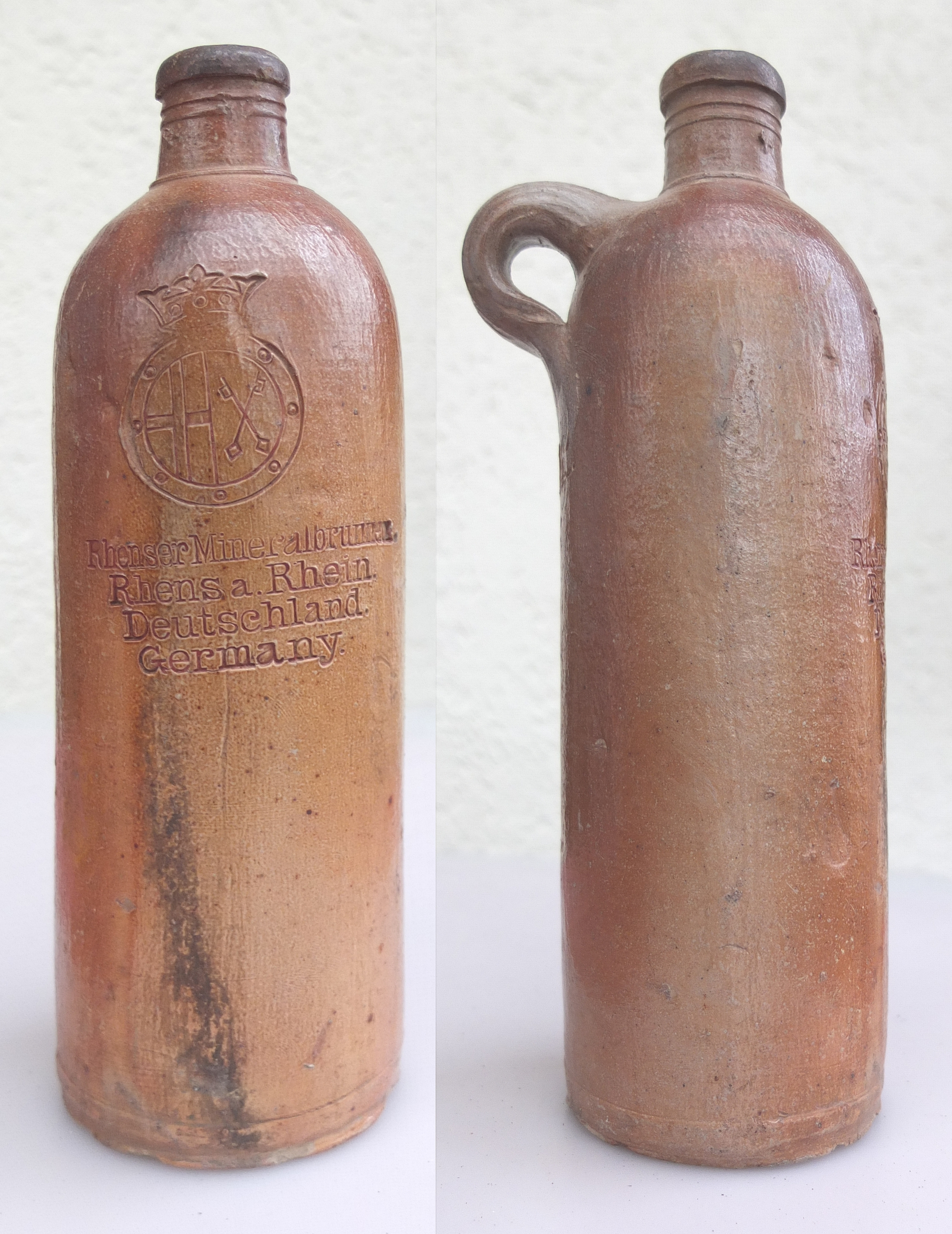 Mineral water bottle of Rhenser Mineralbrunnen, 19th century.